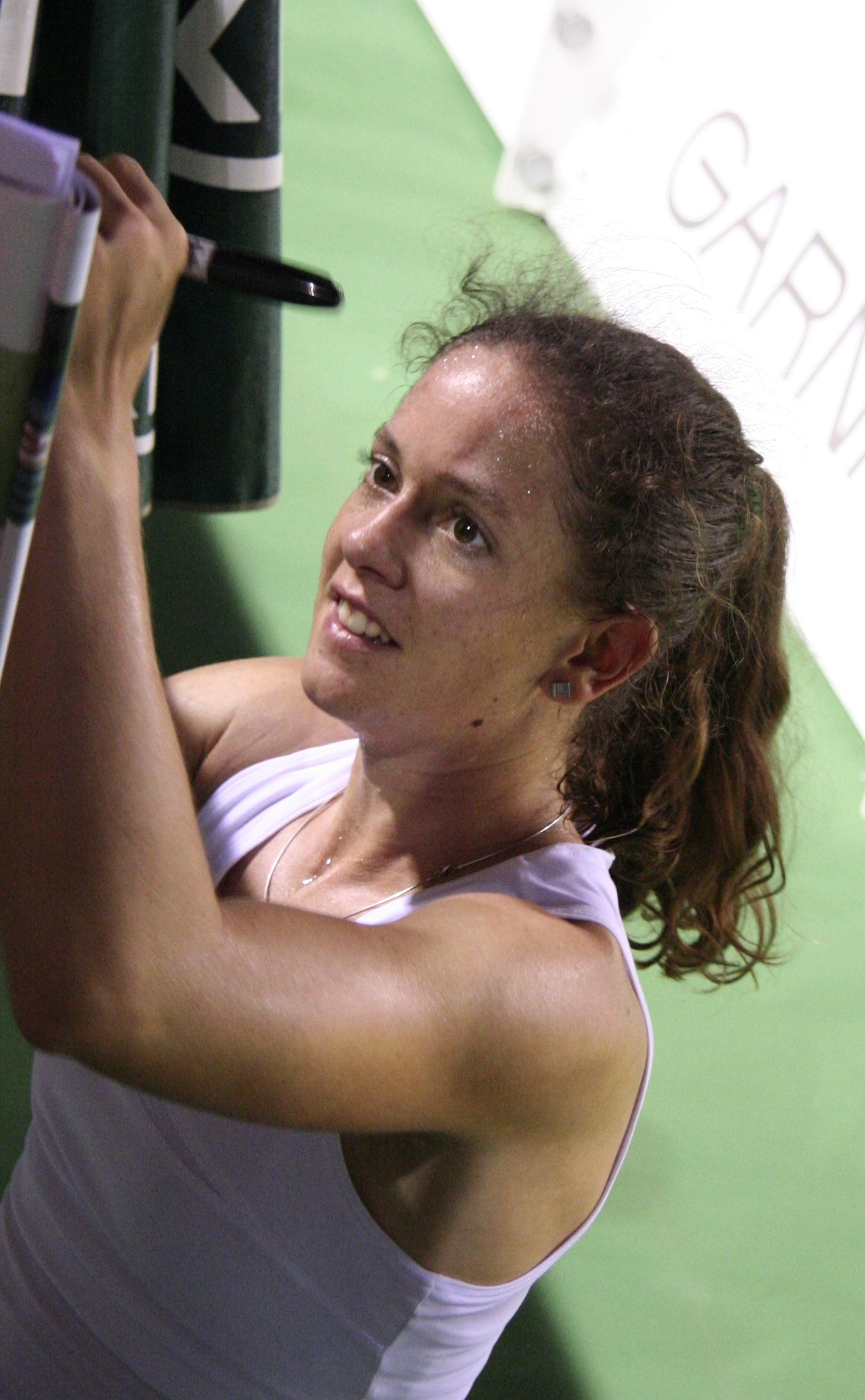 Patty Schnyder at the 2007 Australian Open, after winning her second-round match.